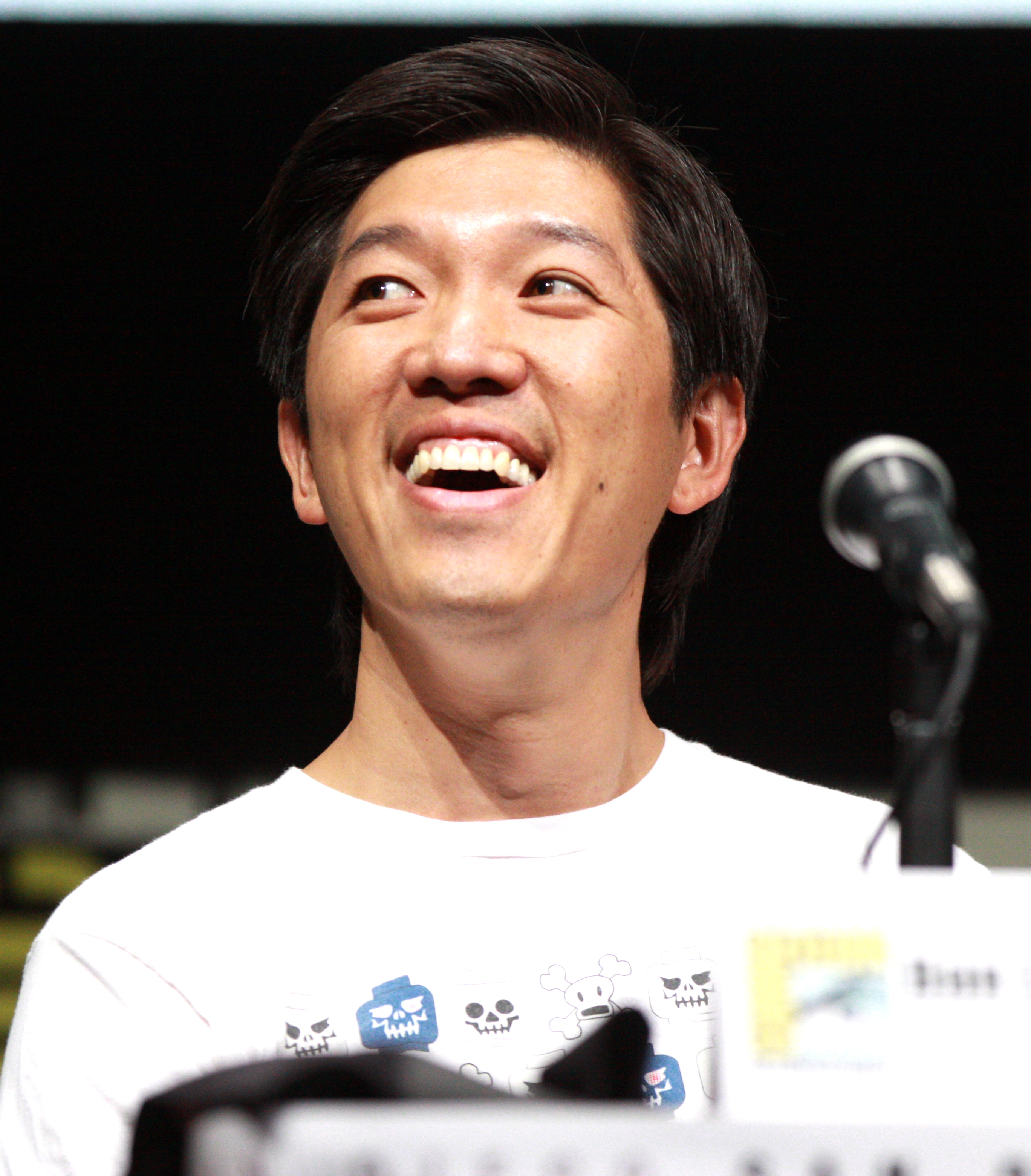 Dan Lin at the 2013 San Diego Comic Con International in San Diego, California.